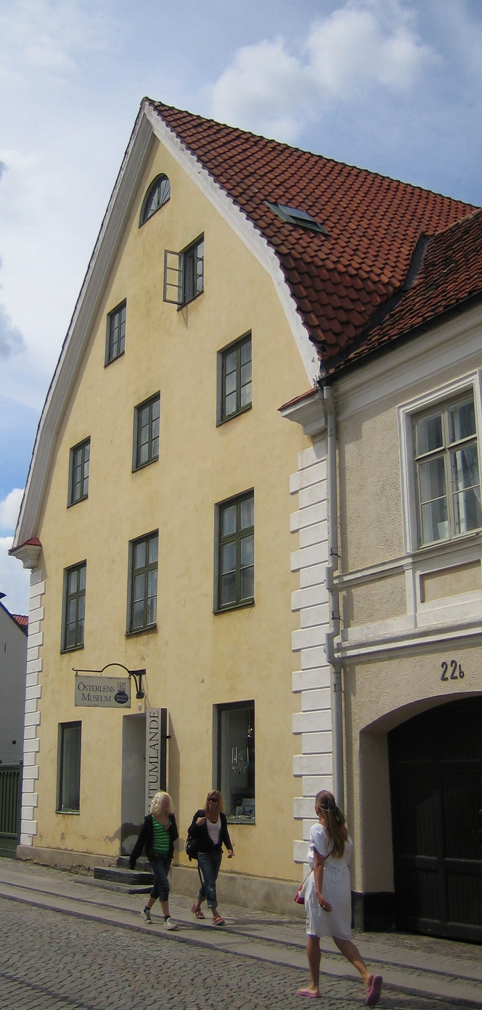 Hafreborg in Simrishamn. Old storehouse now containing Österlens museum.